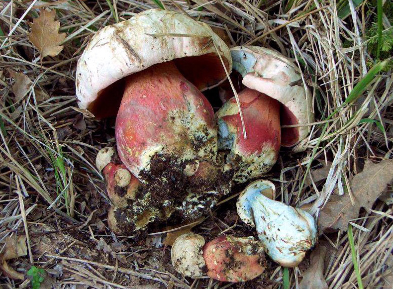 Boletus satanas - Lajatico (PI) - 10/2006